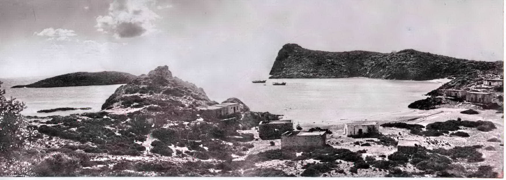 Kaloi Limenes in 1920